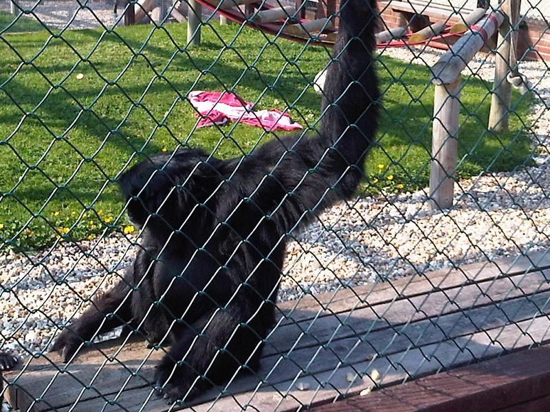 Siamang (Symphalangus syndactylus) at Owl and Monkey Haven in Isle of Wight, England.